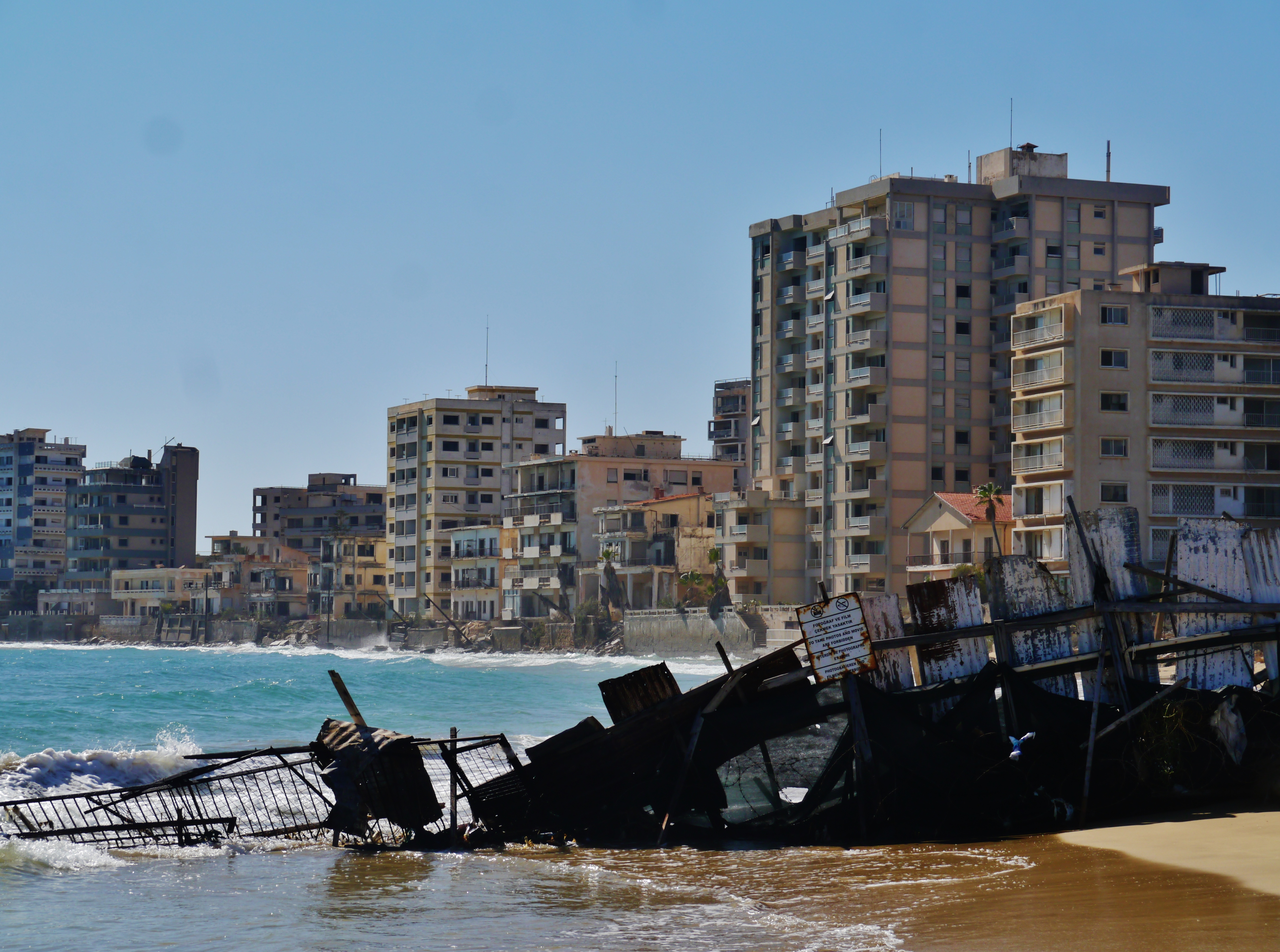 Ghost Town Varosha/Varosia/Maraş, Famagusta/Ammóchostos/Gazimağusa, Turkish Republic of North Cyprus